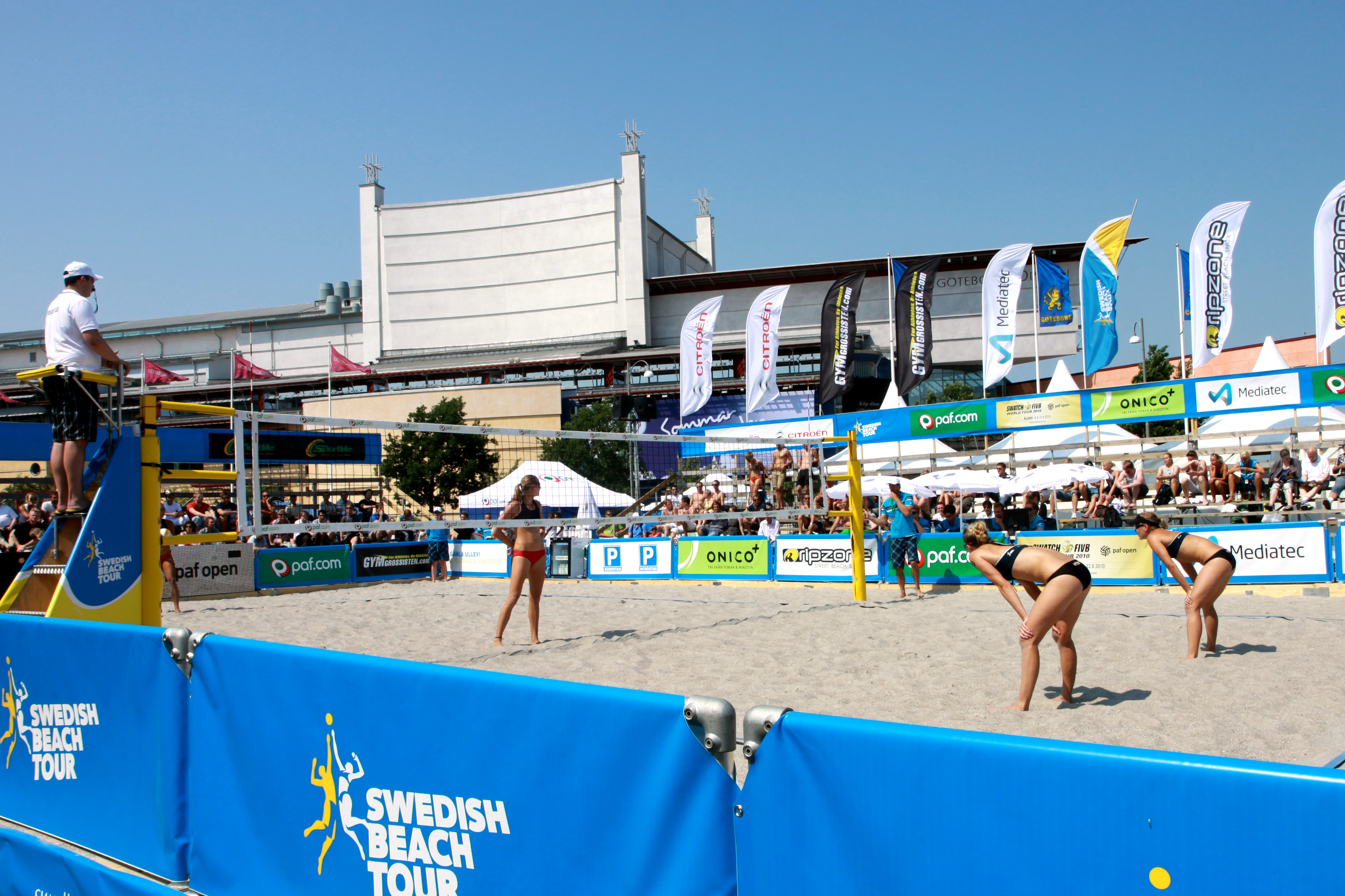 The game between Naiana Rodrgues de Araujo/Karin Lundqvist and Camilla Nilsson/Tora Hansson at the Swedish Beach Tour 2010 in Gothenburg